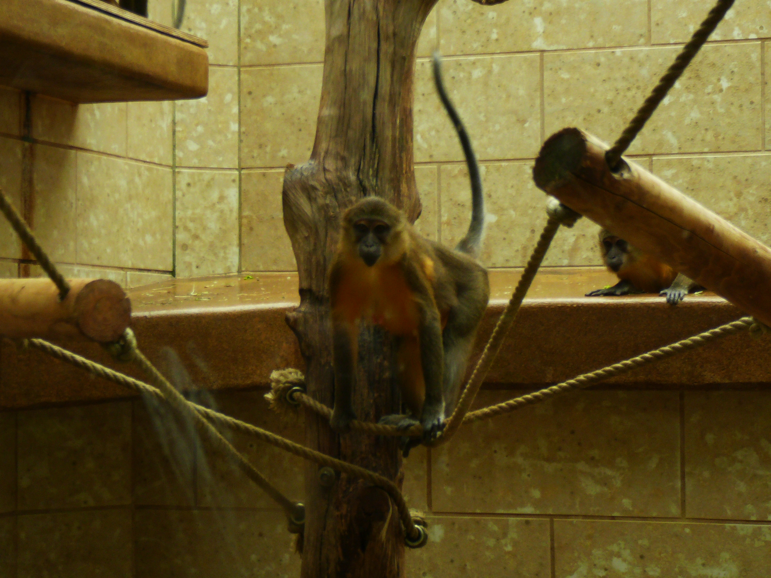 Cercocebus chrysogaster